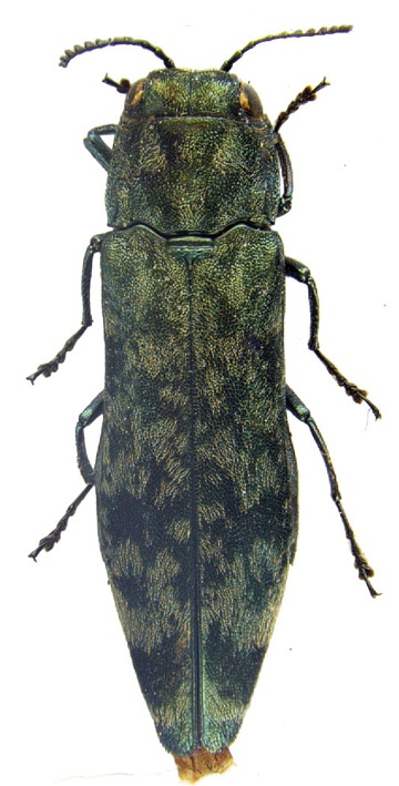 Agrilus pluvius Jendek 2013, holotype.